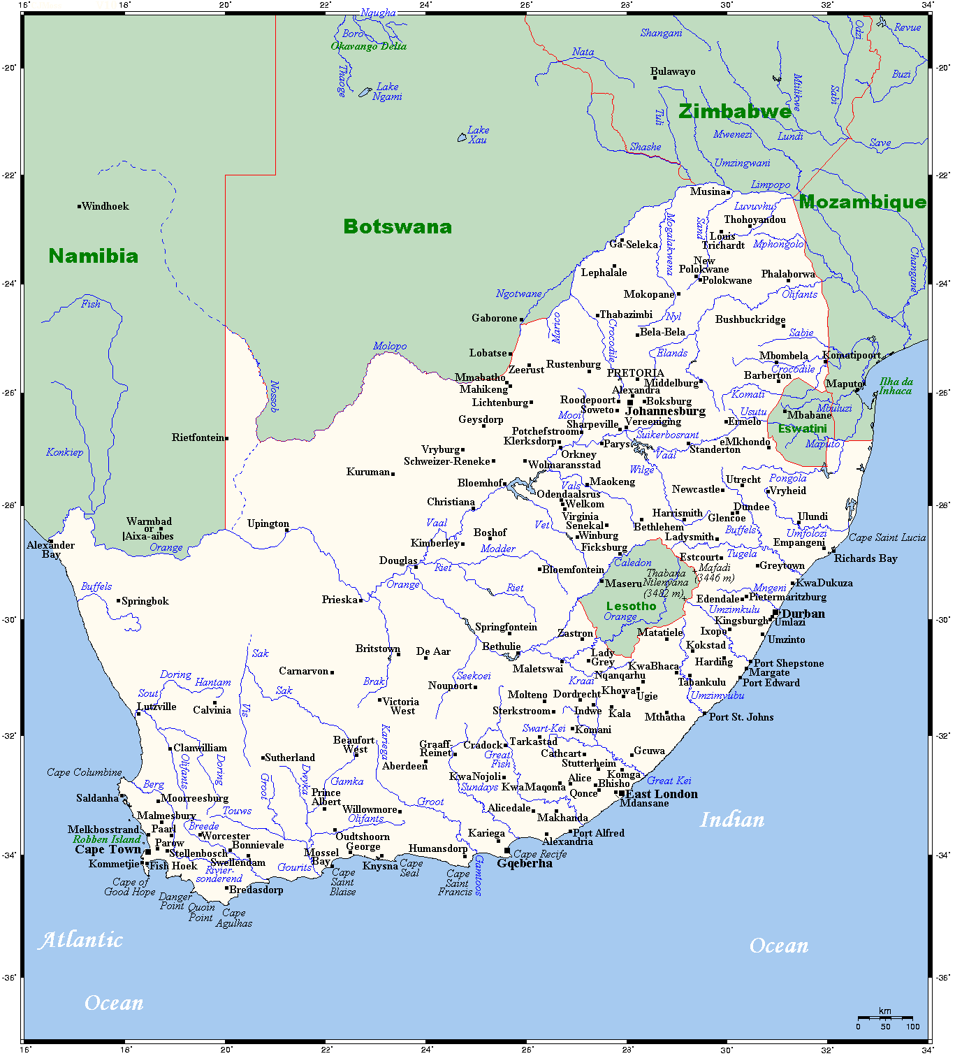 A map showing South Africa's cities, main towns, selected villages, rivers, and its highest peak. This map's source is here, with the uploader's modifications, and the GMT homepage says that the tools are released under the GNU General Public License.